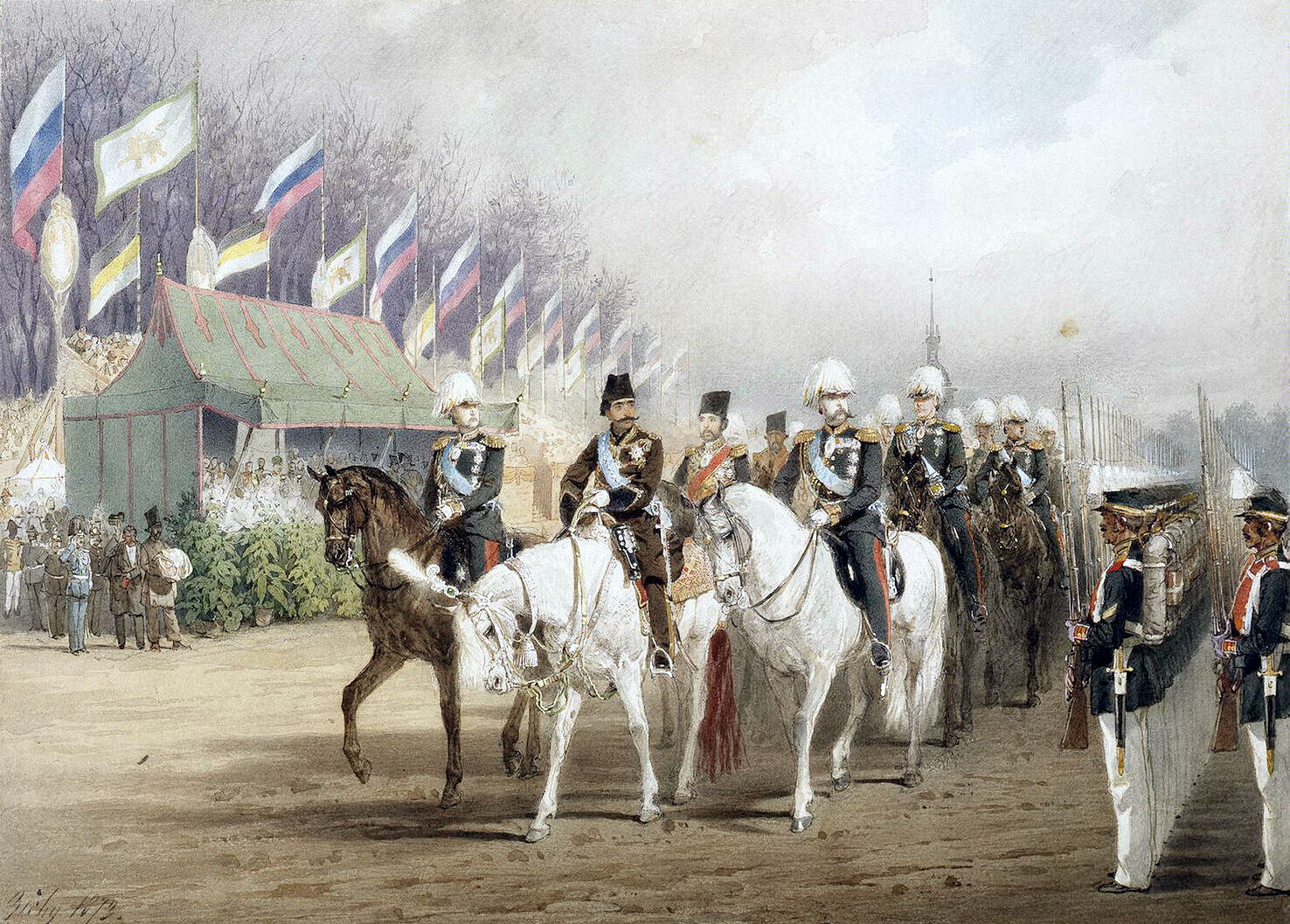 Mihály Zichy Листы из серии “Посещение персидским шахом Санкт-Петербурга. 1873”. 1874 (Кат. 72, 73) Серия включает семь акварелей, вложенных в папку с тисненой надписью: Der Besuch S. М. Des Schah von Persian in St. Petersburg Происхождение: пост, в 1927 из Библиотеки Александра II в Зимнем дворце Литература: Алешина 1975, с. 204 Александр II и шах Наср-эд-Дин во время парада на Царицыном лугу Внизу слева подпись и дата: Zichy 1874 Акварель, гуашь, графитный карандаш, белила; изображение обрамлено картонным паспарту. 258 х 357 Инв. № ЭРР-7036 Выставки: 2004 Санкт-Петербург, № 251 Изображены: Шах Наср-эд-Дин, Александр II и великий князь Николай Николаевич верхом, в сопровождении многочисленной свиты, объезжают парадный строй войск на Царицыном лугу. В записной книжке М.А. Зичи за 1873 г. значится: “Parad avec le Schah de Perse” (парад с персидским шахом). “Несколько дней спустя по отъезде германского императора Вильгельма I (26 апреля 1873 года. – Г.П.) в Петербург прибыл шах персидский и провел там пять дней” (Татищев С.С. Император Александр II, его жизнь и царствование. СПб., 1903. Т. II, с. 100). Шах Наср-эд-Дин (1831-1896) наследовал престол в 1848 г. после смерти отца – Мухаммед-шаха. Получил прекрасное образование, интересовался географией, поэзией, изобразительным искусством. В 1873, 1878 и 1889 гг. предпринимал путешествия по европейским странам, которые сам описал. Осуществил в Персии некоторые реформы – был проведен телеграф, преобразована армия, основана военная школа. Однако внутренние распри и борьба шаха с сектой бабидов привели его к гибели от руки убийцы в 1896 г.